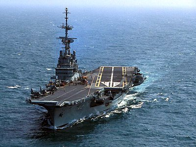 Image of NAe São Paulo